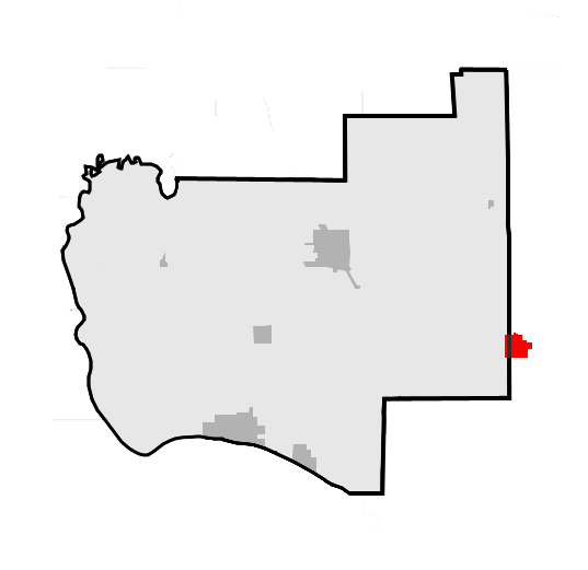 This is a map of Jersey County, Illinois, United States, which highlights the location of the municipality of Brighton.